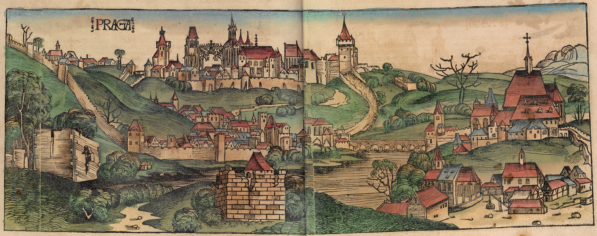 Prague. Woodcut from the Nuremberg Chronicle (Latin edition in Sao Paulo)